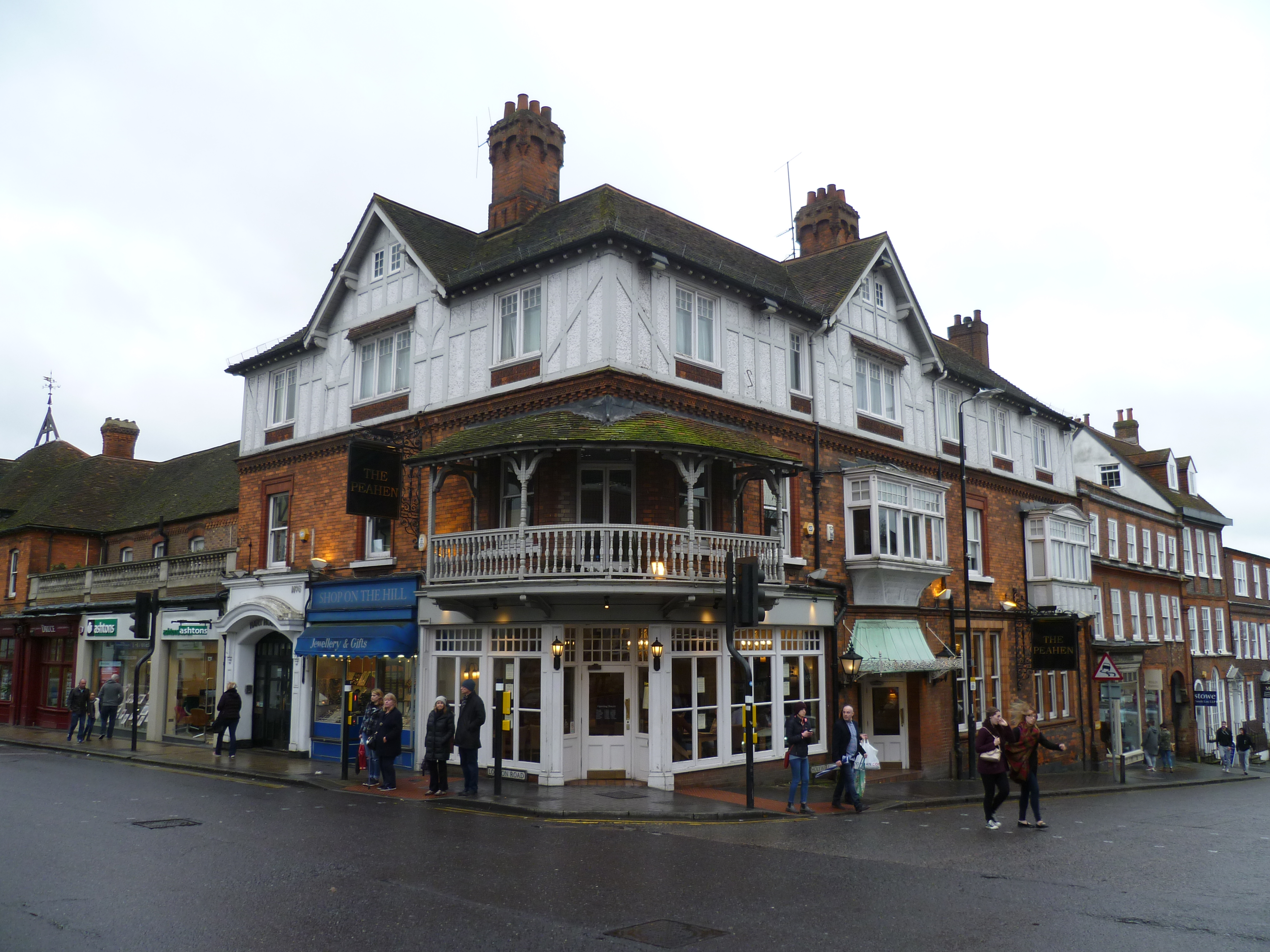 St Albans